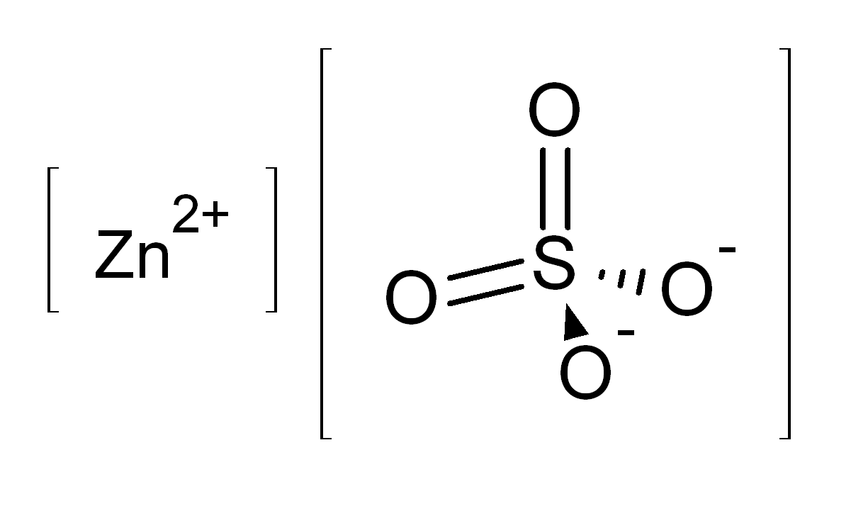 Zinc sulfate.